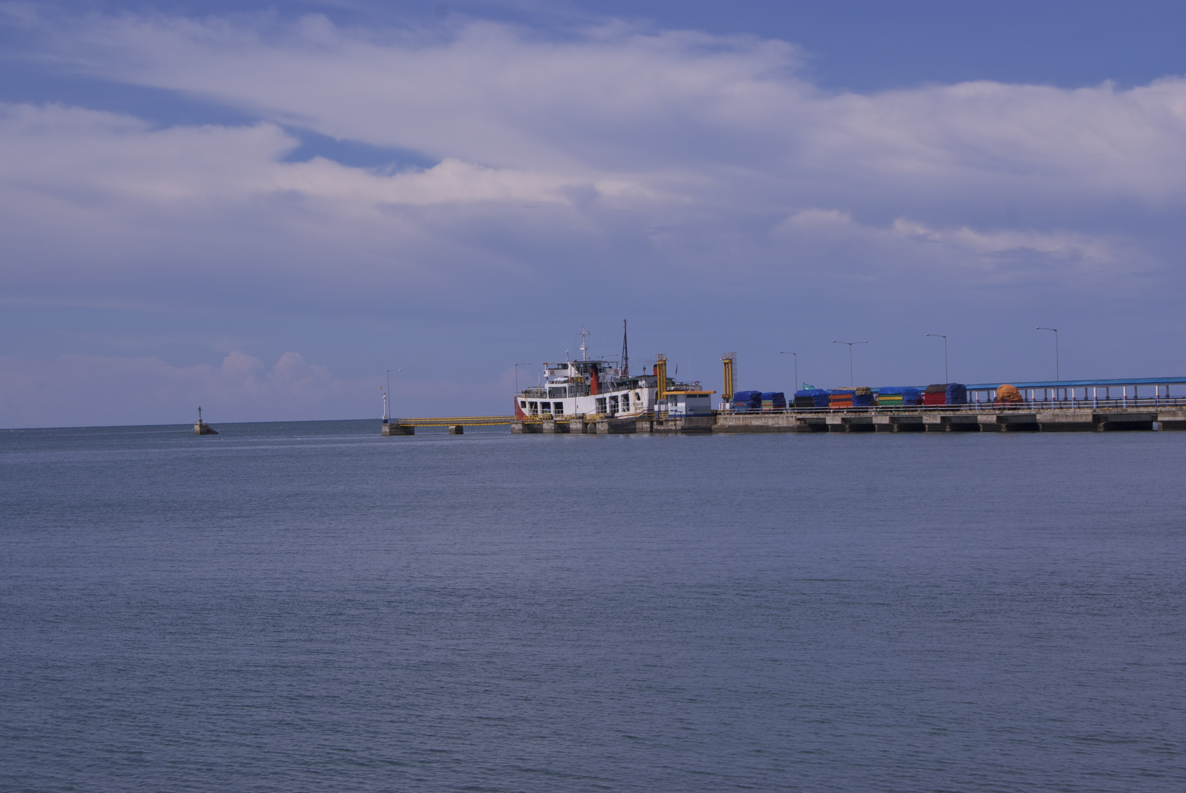 KMP Kotabumi at Port of Bajoe Bone South Sulawesi, Indonesia